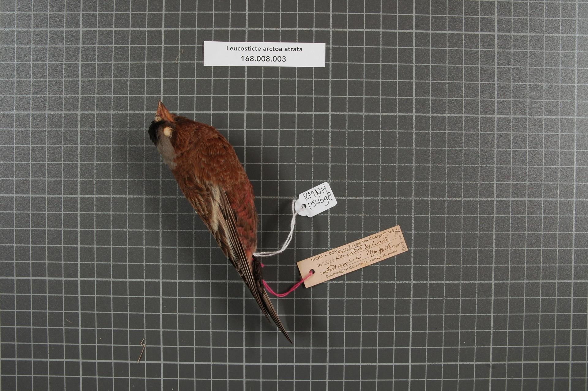 Leucosticte arctoa atrata Ridgway, 1874